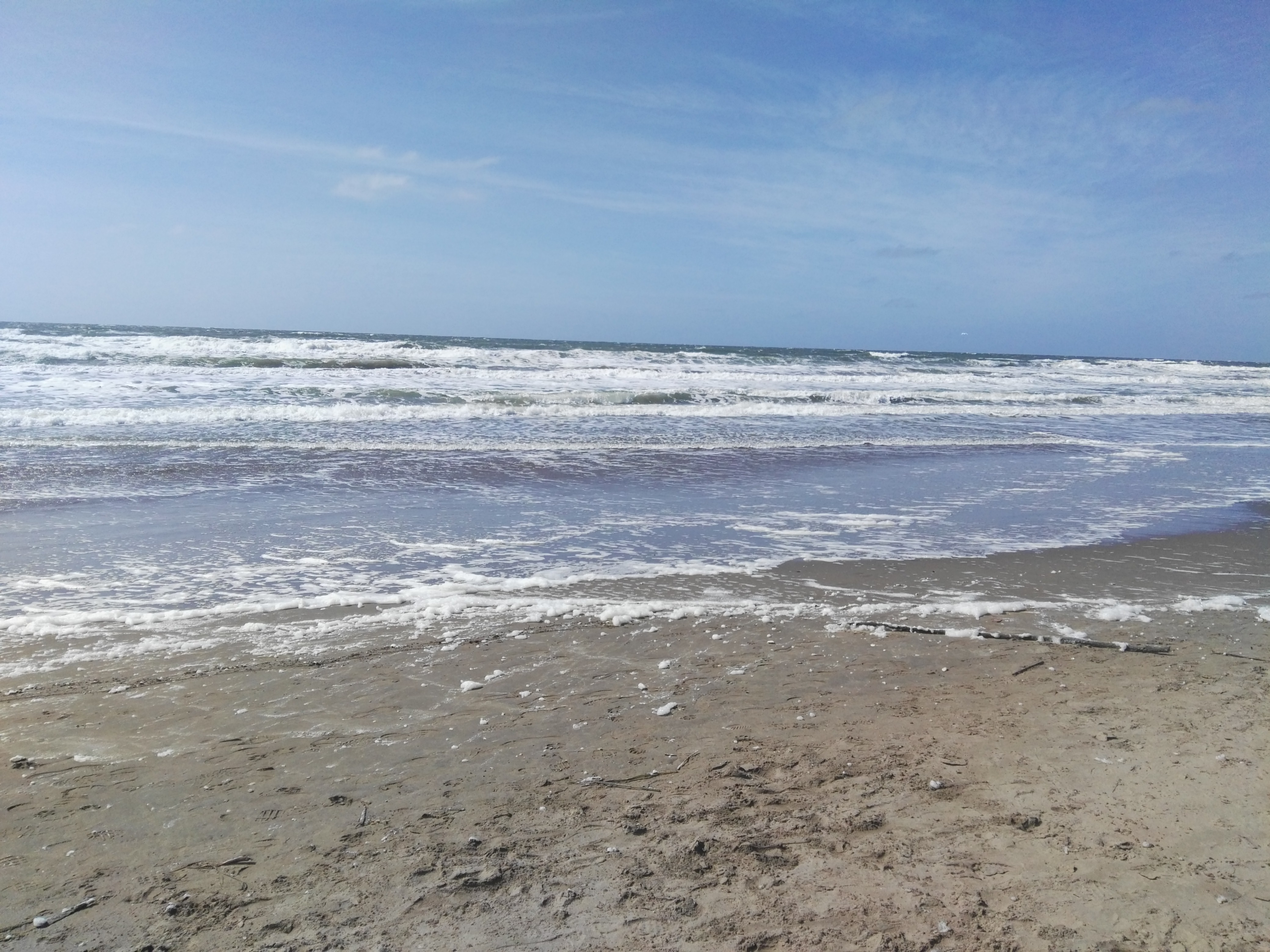 Buenos Aires seaside, Las Toninas, Argentina.